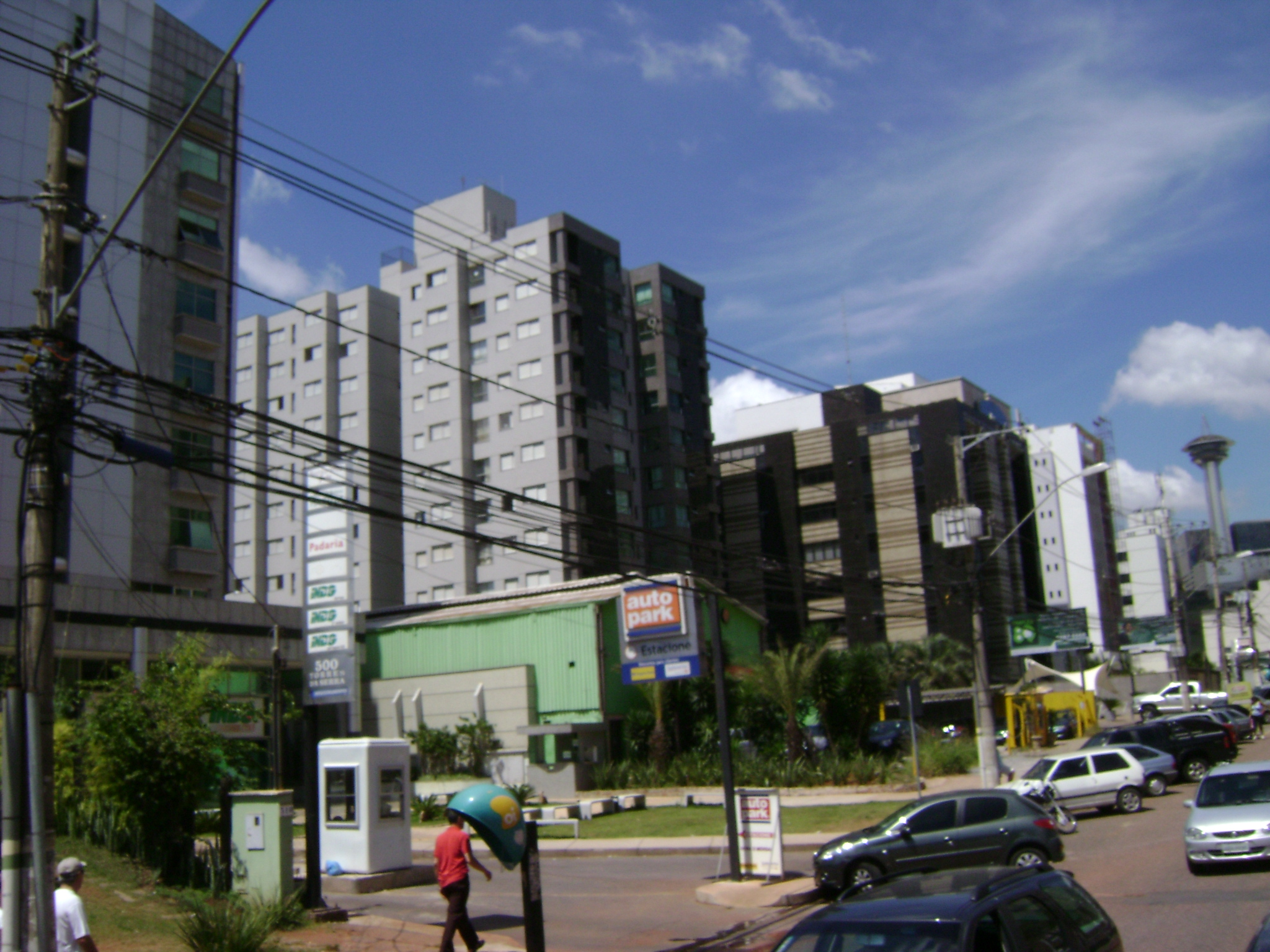 Vista do bairro Vila da Serra, em Nova Lima. O shopping Alta Vila está presente no canto direito.